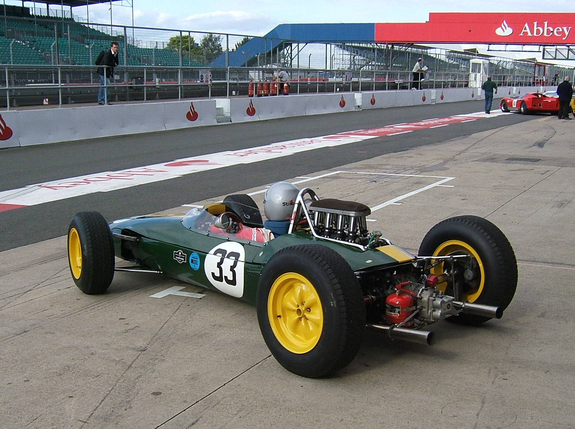 A Lotus 33 leaves the pit garages at Silverstone Circuit, July 2007.